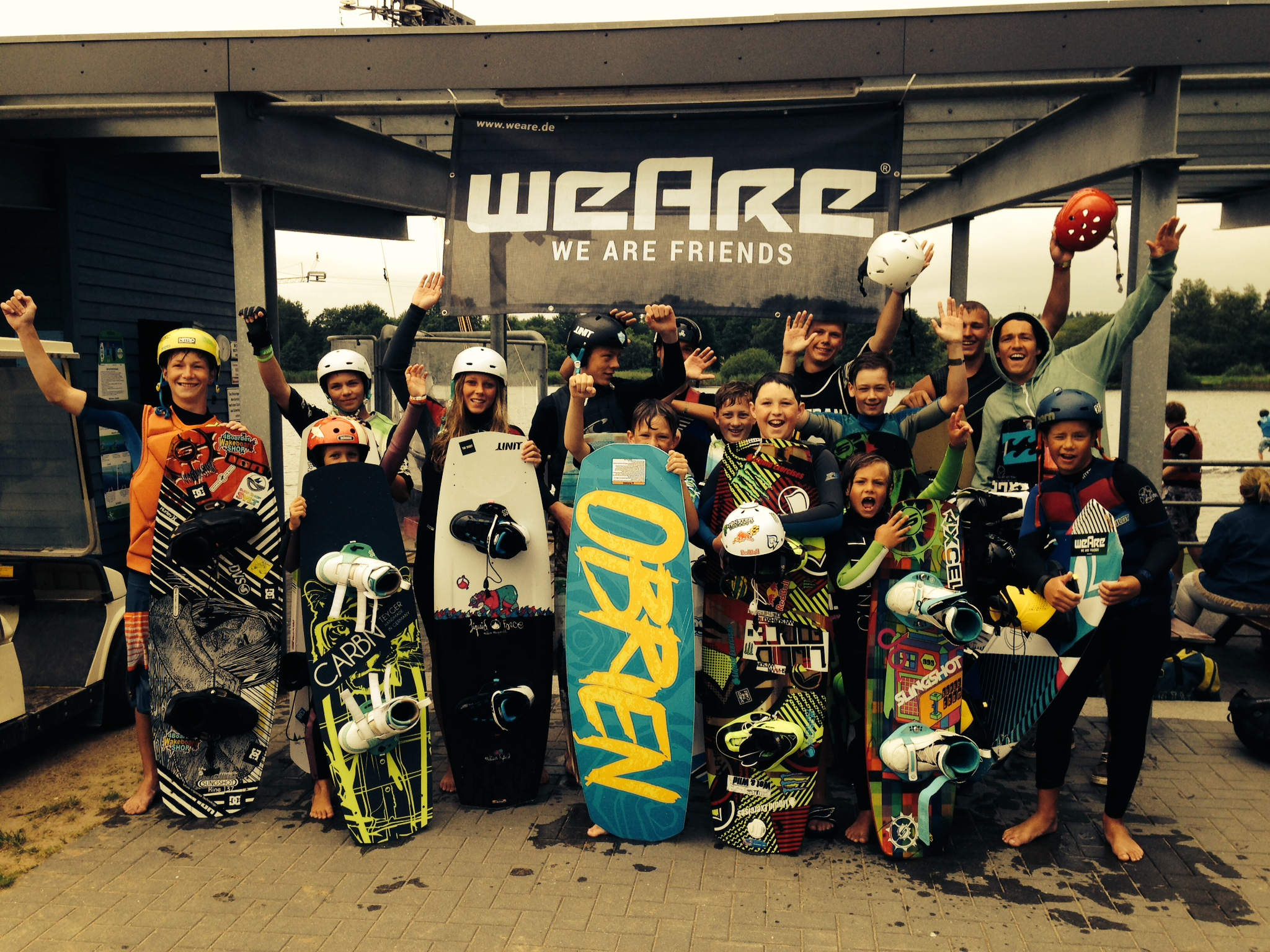 Youngblood Wakeboardcamp